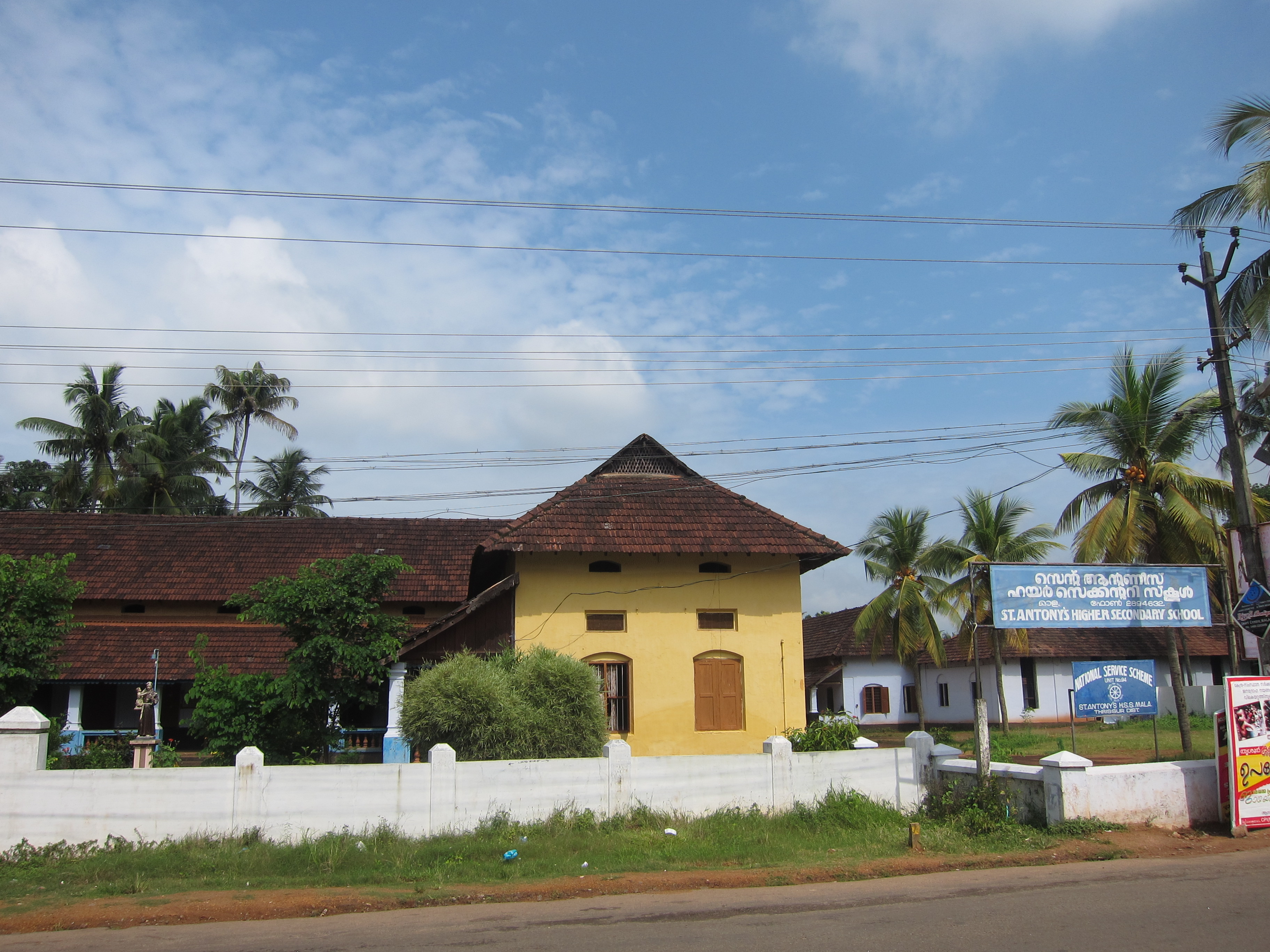 St. Antony's Hr. Sec. School, Mala